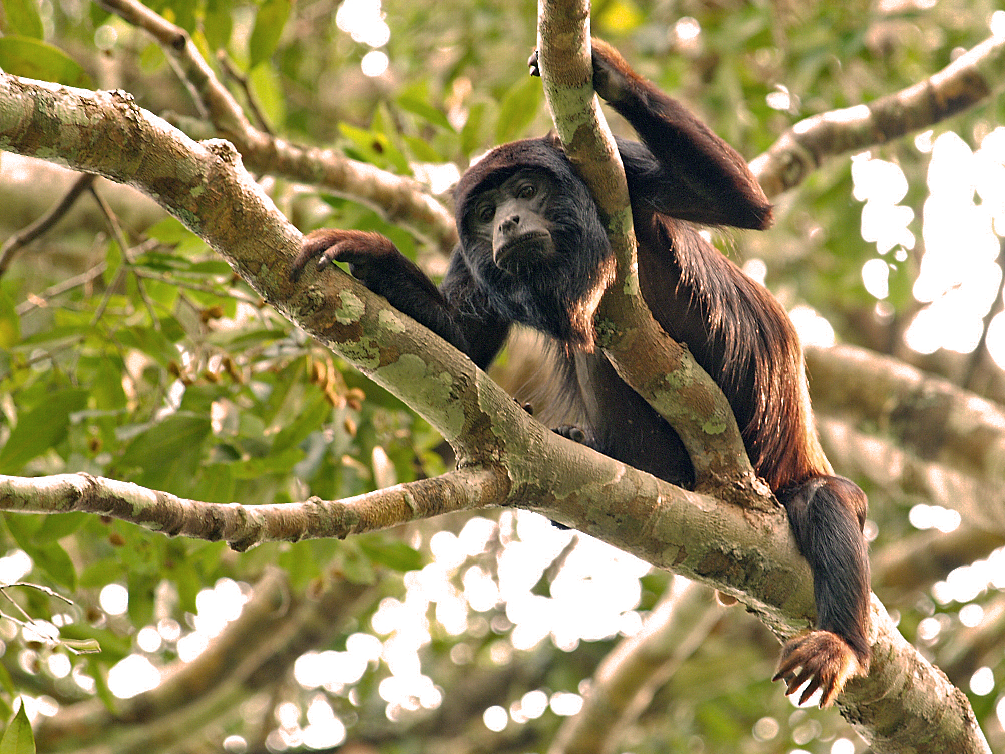 Spix-red-handed-howler (Alouatta discolor) in Alta Floresta, northern Mato Grosso, Brazil. The color of back is reddish-brown, thus, this species is A. discolor, not A. belzebul, since this later has the back entirely black. Also, A. belzebul is enterely black, except the hands, feet and the tail, which is not the case with this specimen. Also this picture was taked in Alta Floresta, Mato Grosso which corresponds to a location within geographic distribution of A. discolor, according Gregorin (2006).